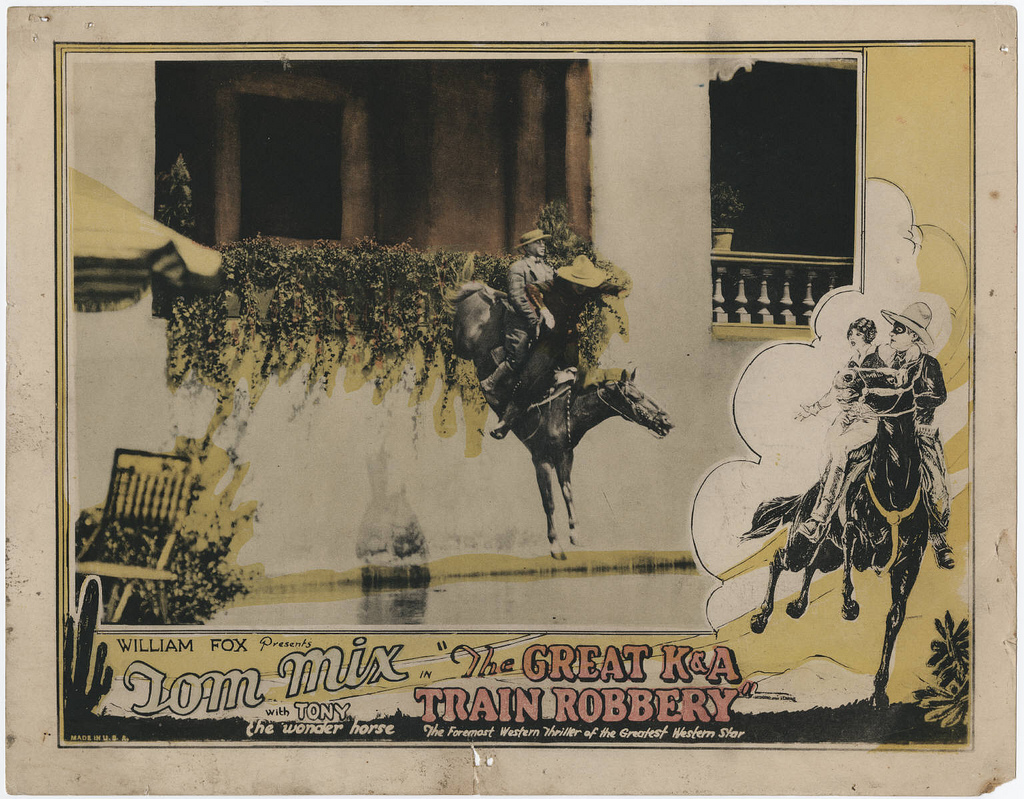 William Fox presents Tom mix in The Great K & A Train Robbery (1926) with Tony the Wonder Horse. "A crash - a shriek - and he plunged over the sandy precipice." Part of the Western silent films lobby card collection, 1912-1930, Yale Collection of Western Americana, Beinecke Rare Book and Manuscript Library.